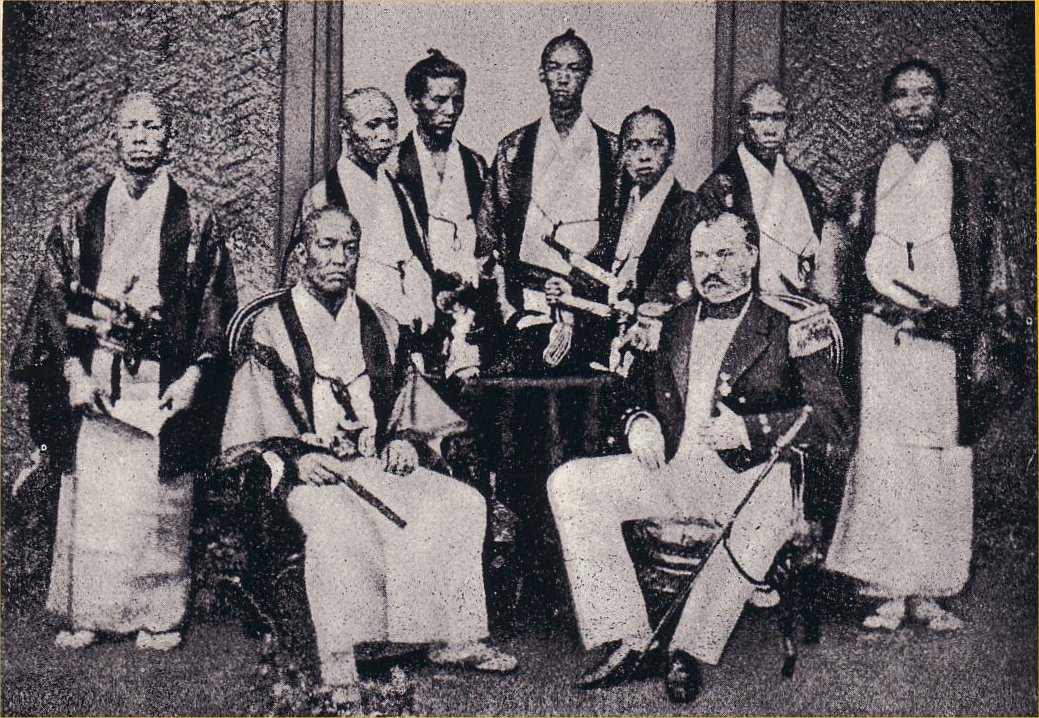 Johannes Lijdius Catharinus Pompe van Meerdervoort and student